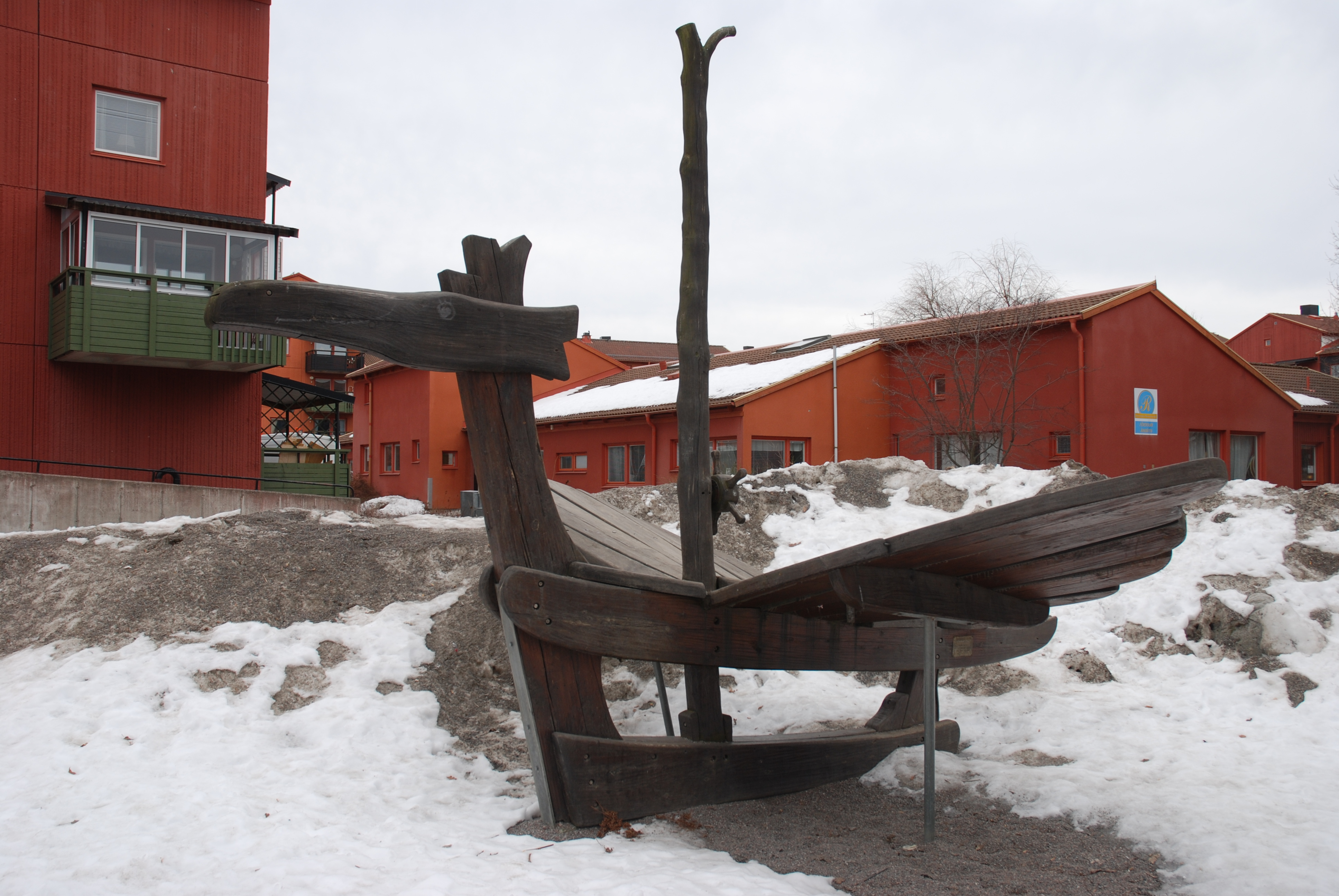 Percy Anderson´s sculpture Leonardos dröm (Leonardo´s dream), Ekerö, Sweden